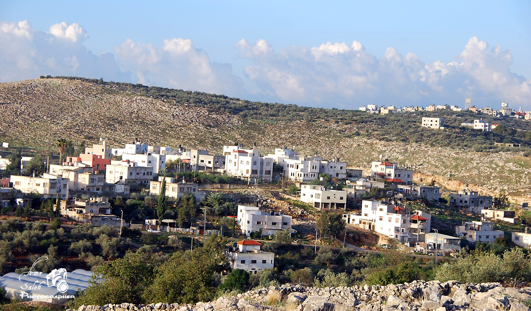 عزبة شوفة